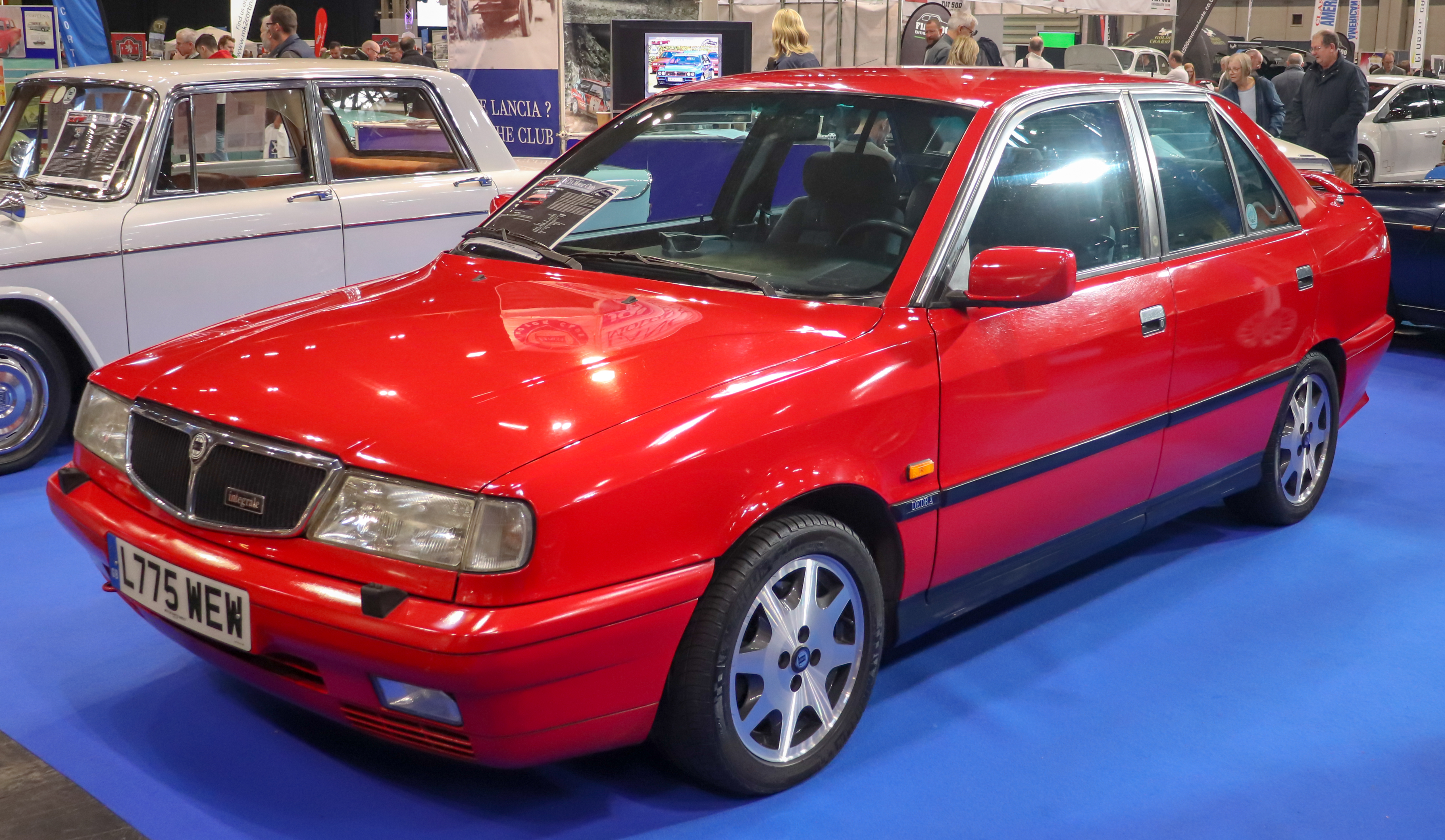 1994 Lancia Dedra Integrale 2.0 Front Taken at the NEC Classic Motor Show 2018